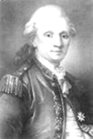 Rene_Madec.